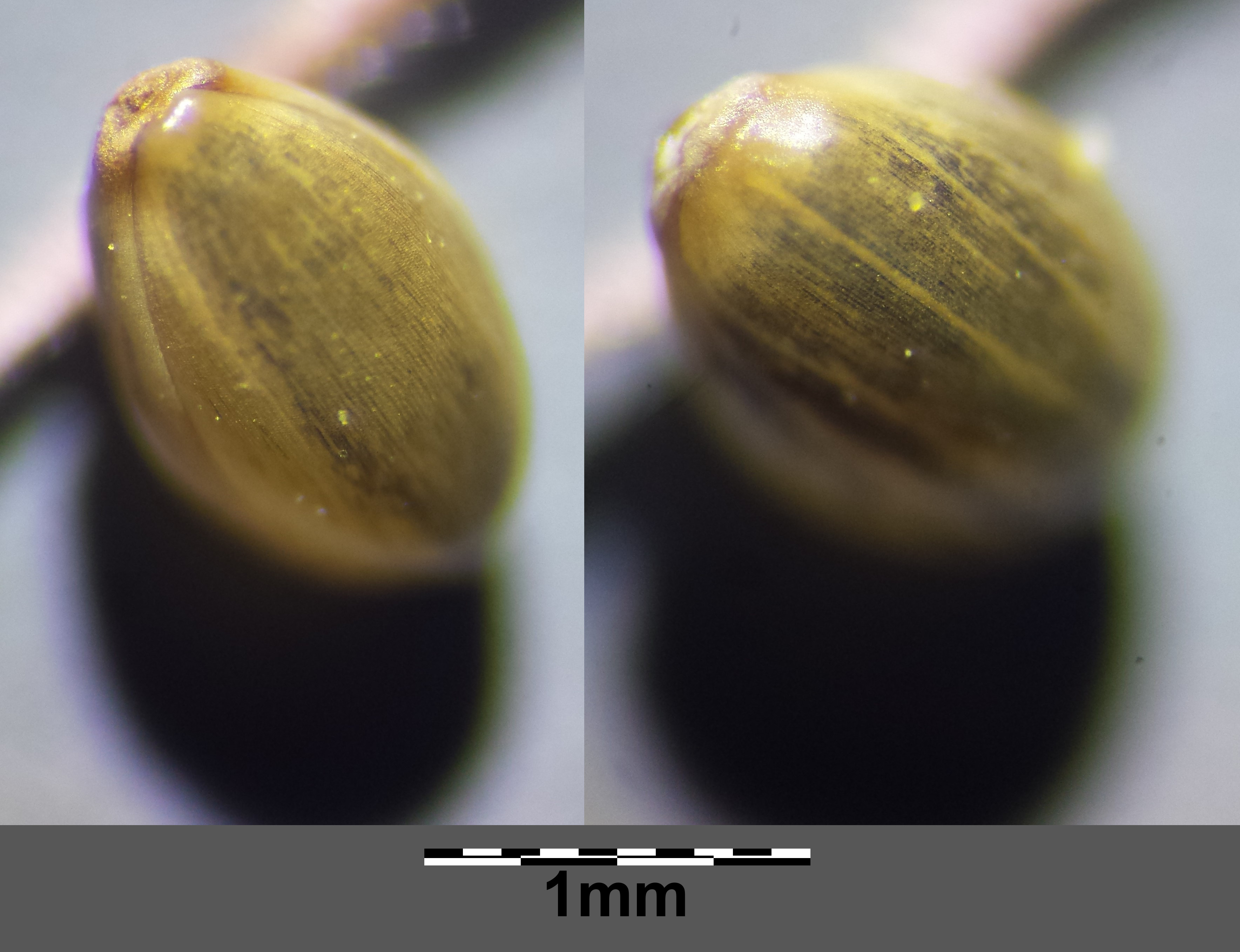 Base of caryopis Taxonym: Panicum capillare ss Fischer et al. EfÖLS 2008 ISBN 978-3-85474-187-9 Location: Grellgasse, Vienna-Floridsdorf - ca. 160 m a.s.l. Habitat: slope